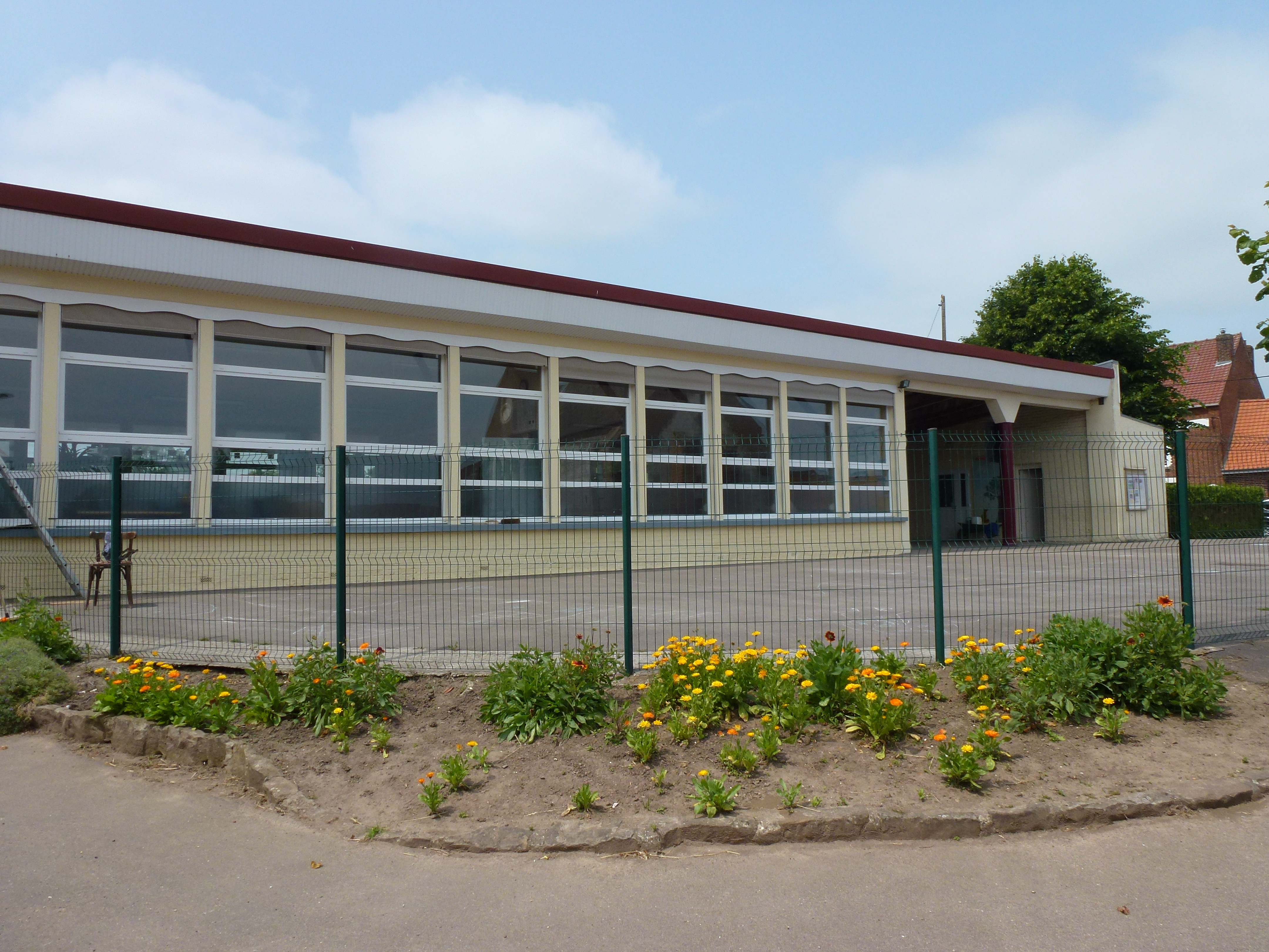 Aumerval (Pas-de-Calais, Fr) école